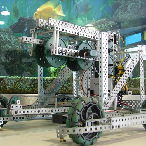 The 2008 FTC robot, Aquiles, lead our team to won the World Championship Inpire Award.